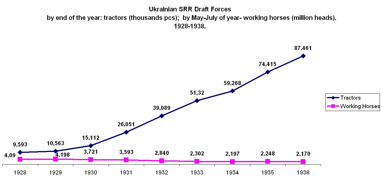 Ukrainian SRR agriculture Draft Forces by end of the year: tractors (thousands pcs); by May-July of year- working horses (million heads). 1928-1938.